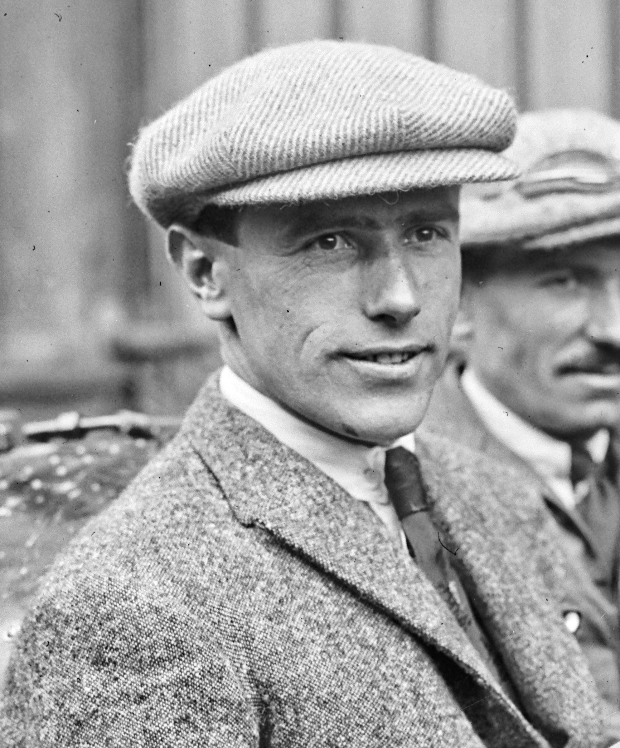 Enrico Giaccone (reserve driver) at the 1922 French Grand Prix